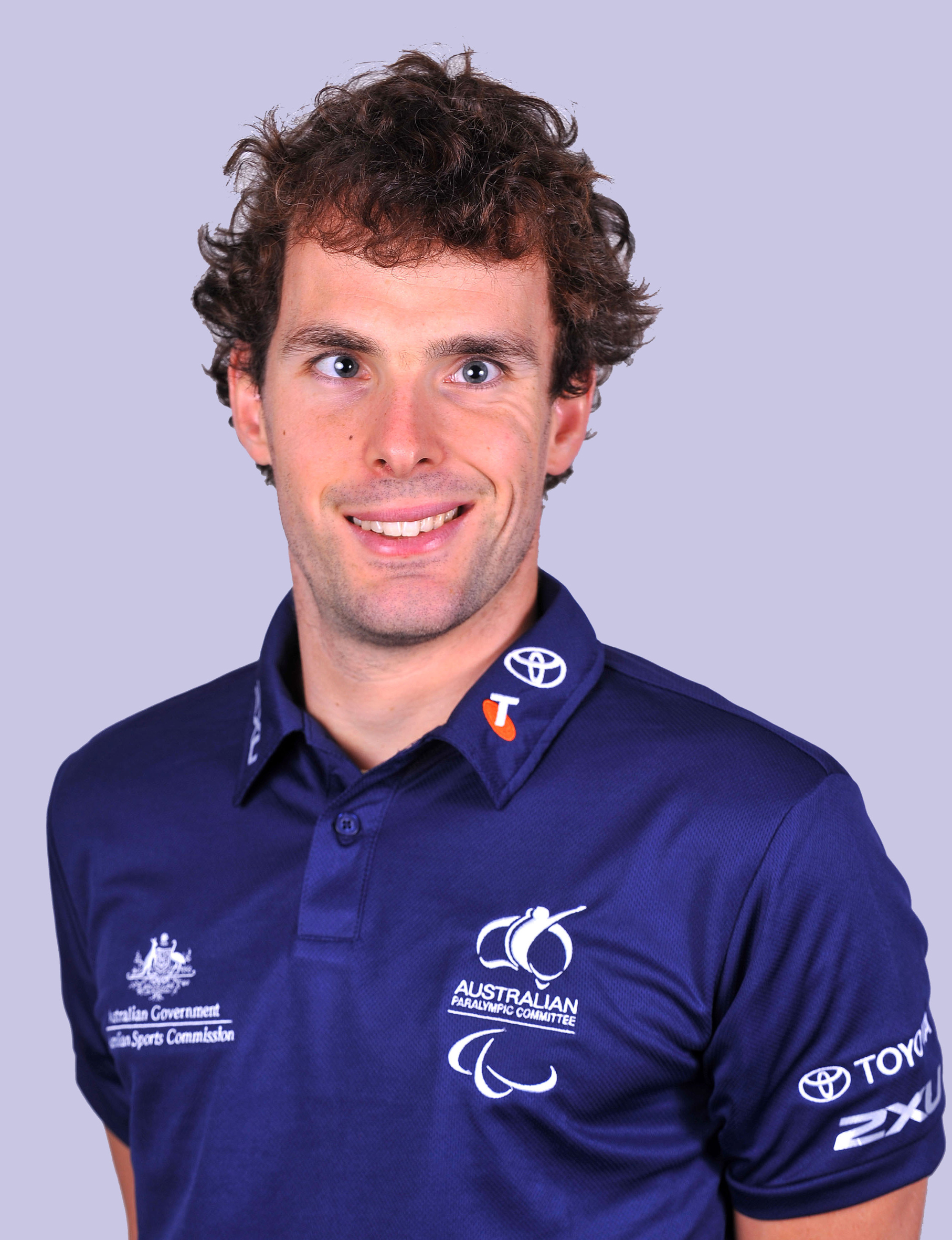 Portrait of Australian swimmer Matt Levy, 2012 Australian Paralympic (shadow) Team athlete